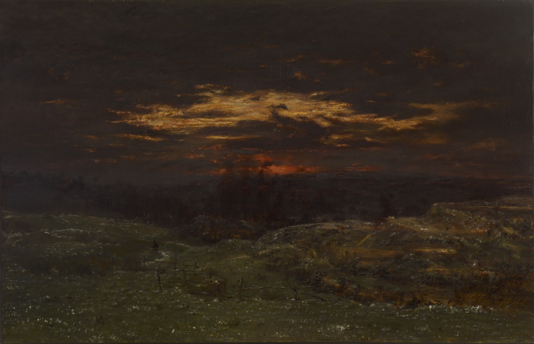 During the winter of 1844/45, Théodore Rousseau shared quarters with fellow painter Jules Dupré to the east of Paris, near l'Îsle-Adam on the Oise River. In this view showing the effects of frost on the sloping terrain, Rousseau broke with Academic practice by working outdoors for a week, painting directly on the canvas. In so doing, he bypassed the distinction between the outdoor sketch and the finished painting, which was traditionally completed in the studio.